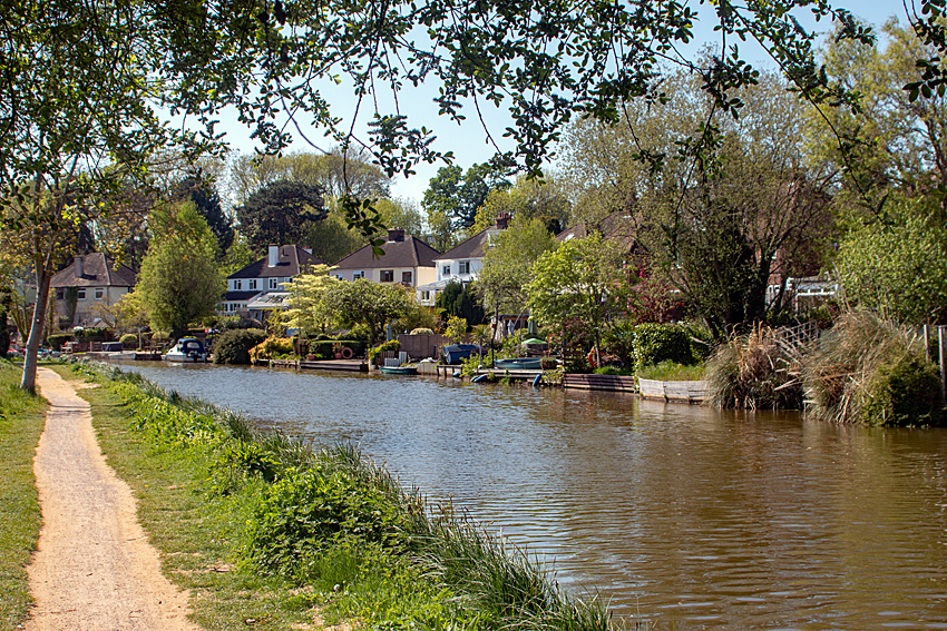 The Guildford suburb of Bellfields from the River Wey